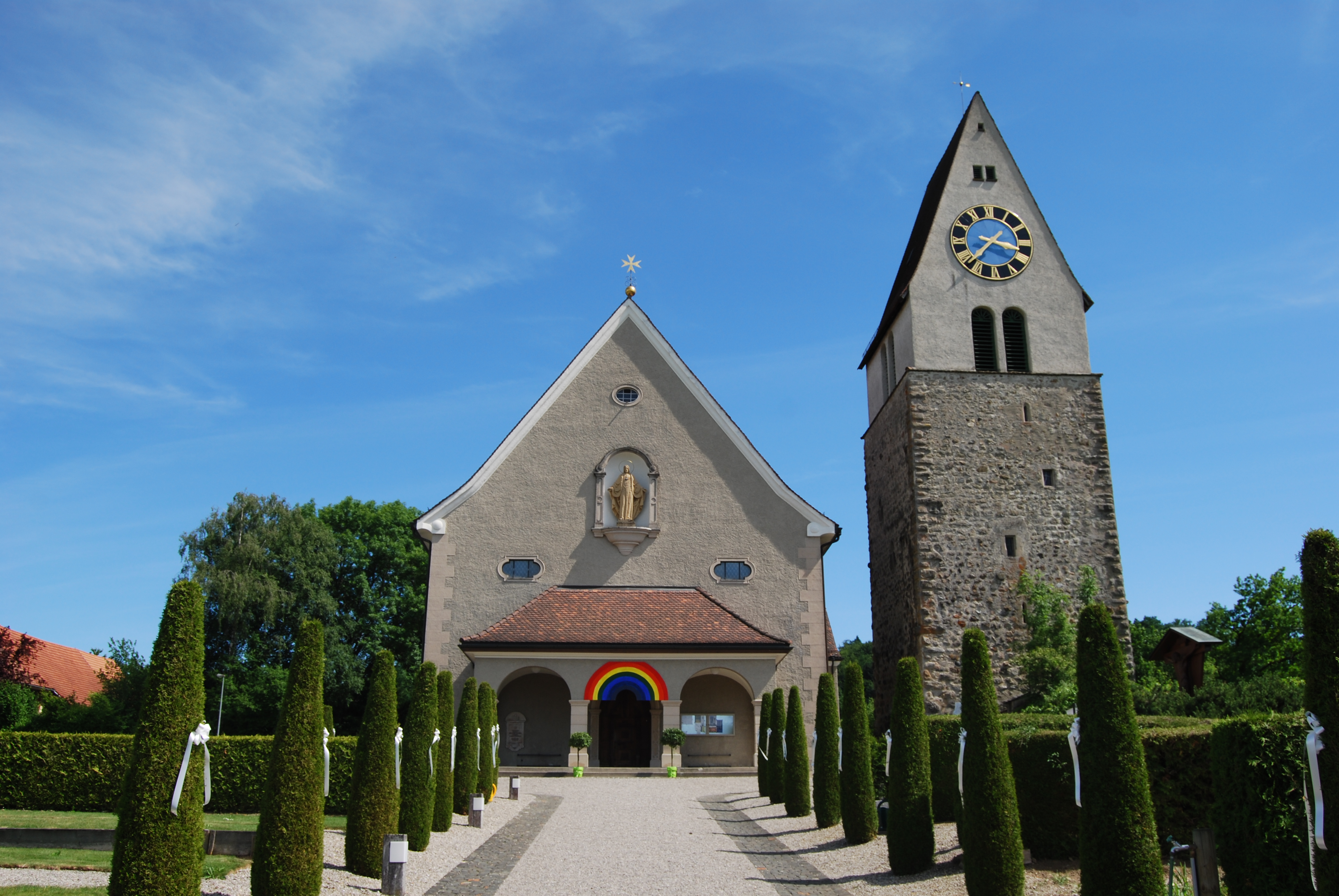 Catholic church of St. John Tobel, municipality Tobel-Tägerschen, canton of Thurgovia, Switzerland